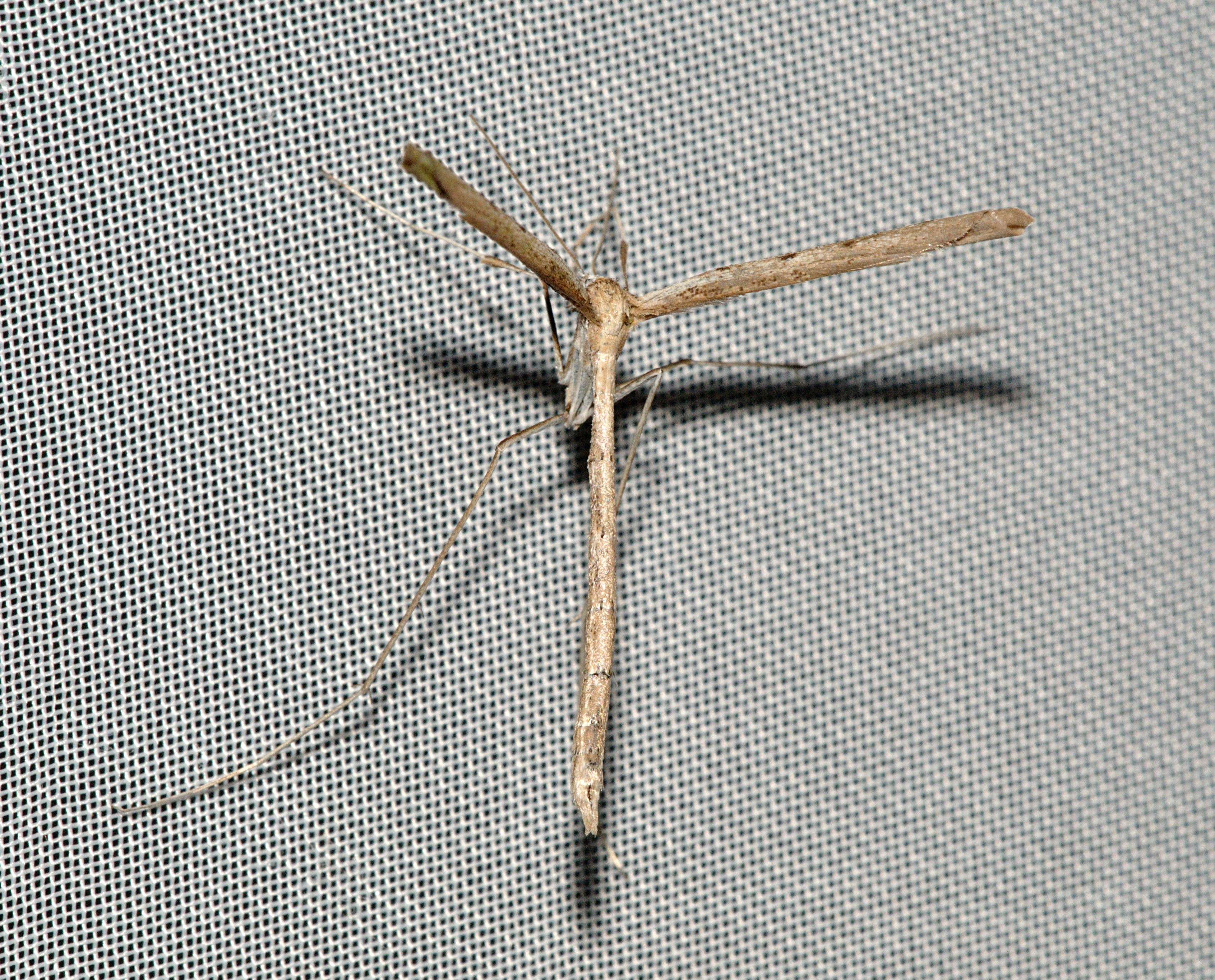 Agdistis intermedia Location: Sečovlje Salina Nature Park, Slovenia 8 EX DG APO IF Makro f/11 Film / Speed: ISO 400 Comment: identification: Stanislav Gomboc